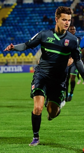 Vyacheslav Krotov